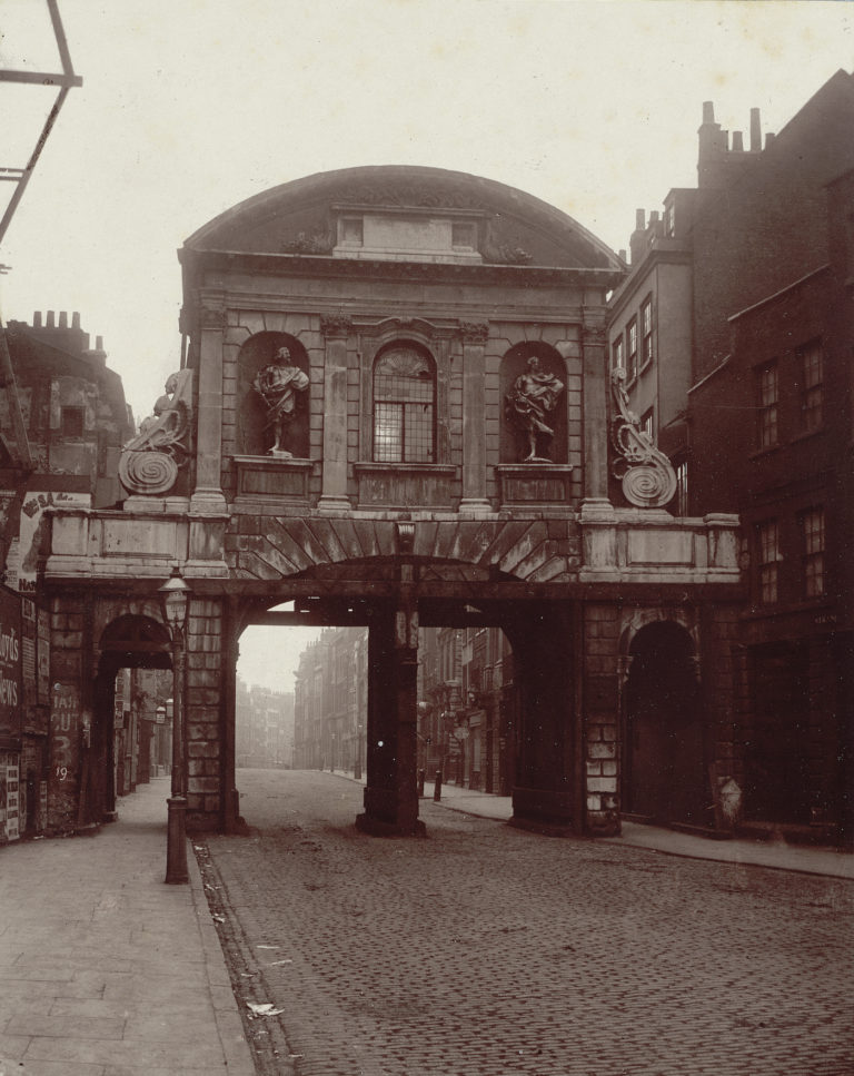 Temple Bar, London, 1878. Carbon print mounted on card, 227 X 176 mm. Royal Academy of Arts, London.